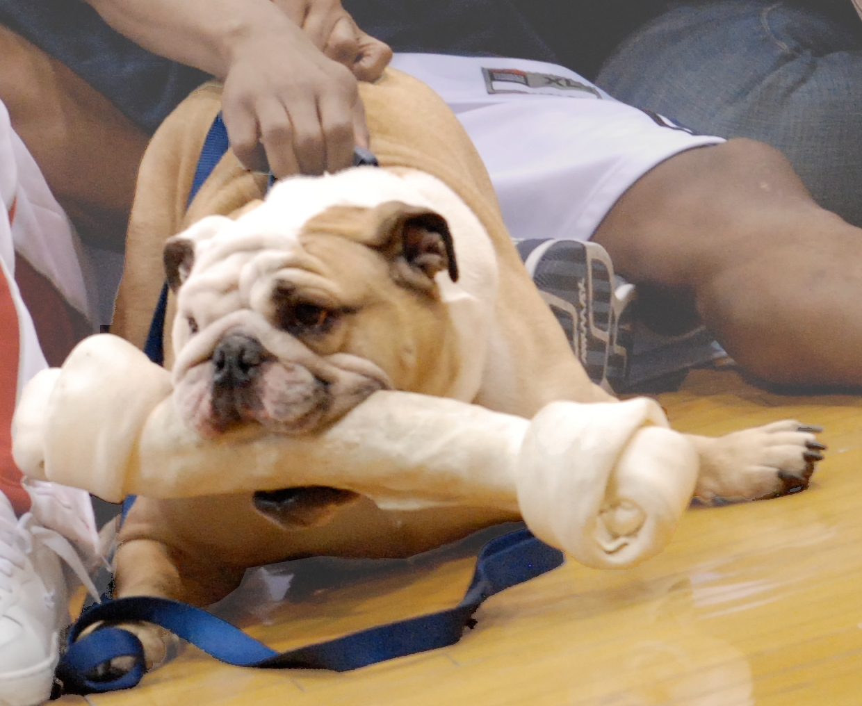 Taken at Hinkle Fieldhouse on the Butler University campus.